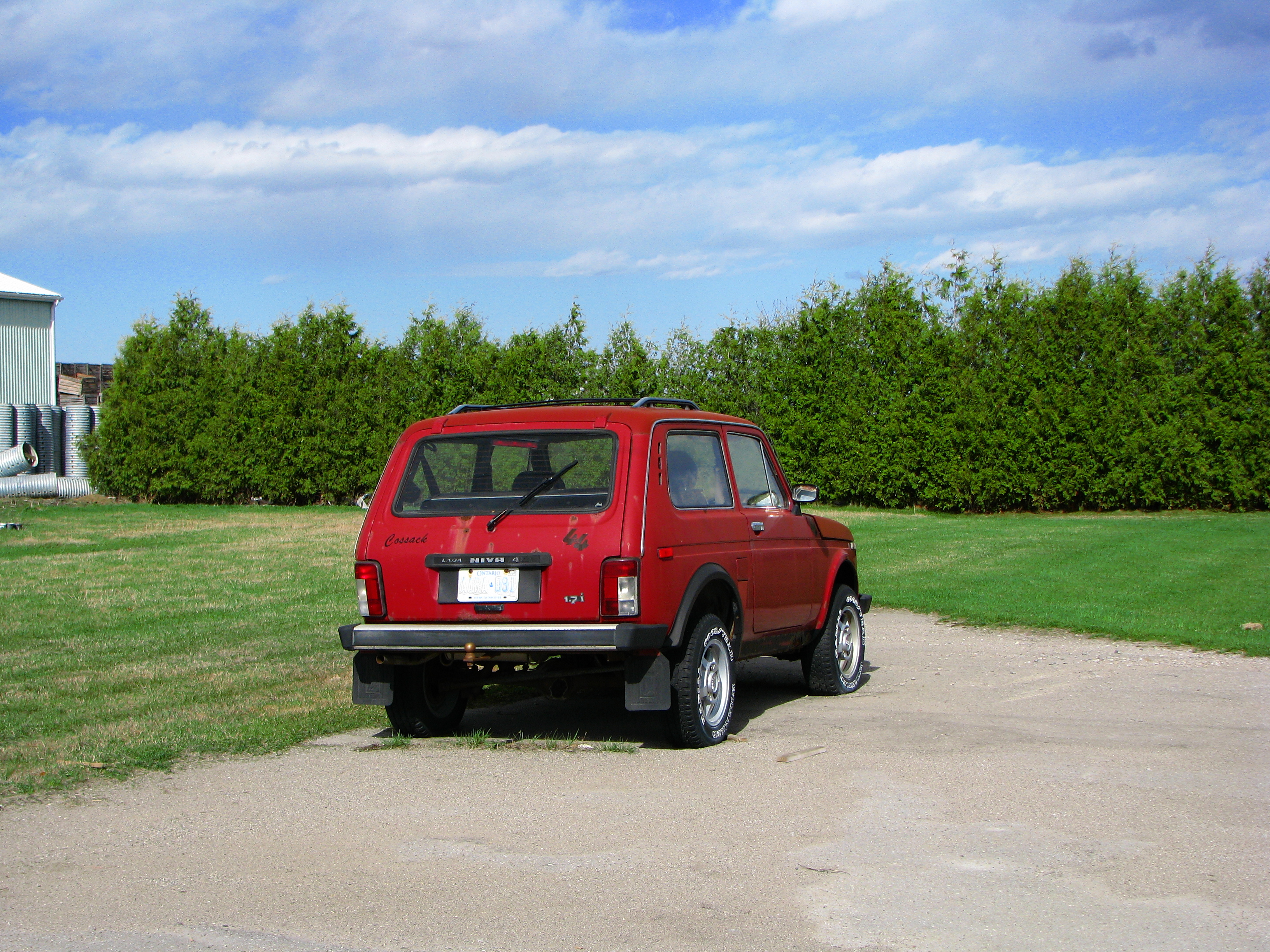 Red Lada Niva Cossack 1.7i in Bradford West Gwillimbury, Ontario, Canada.